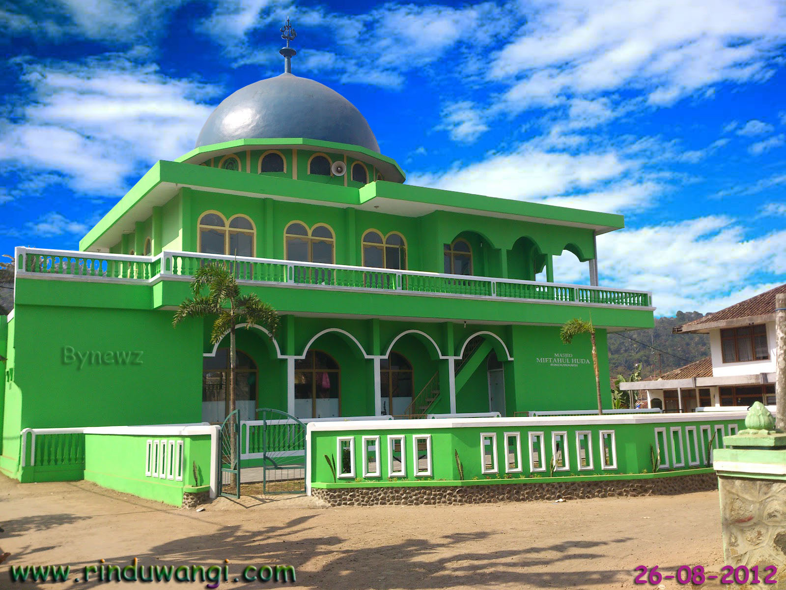 Miftahul Huda Mosque in Rinduwangi, Ciamis, Indonesia